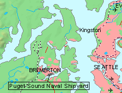 Location of Puget Sound Naval Shipyard (PSNS)